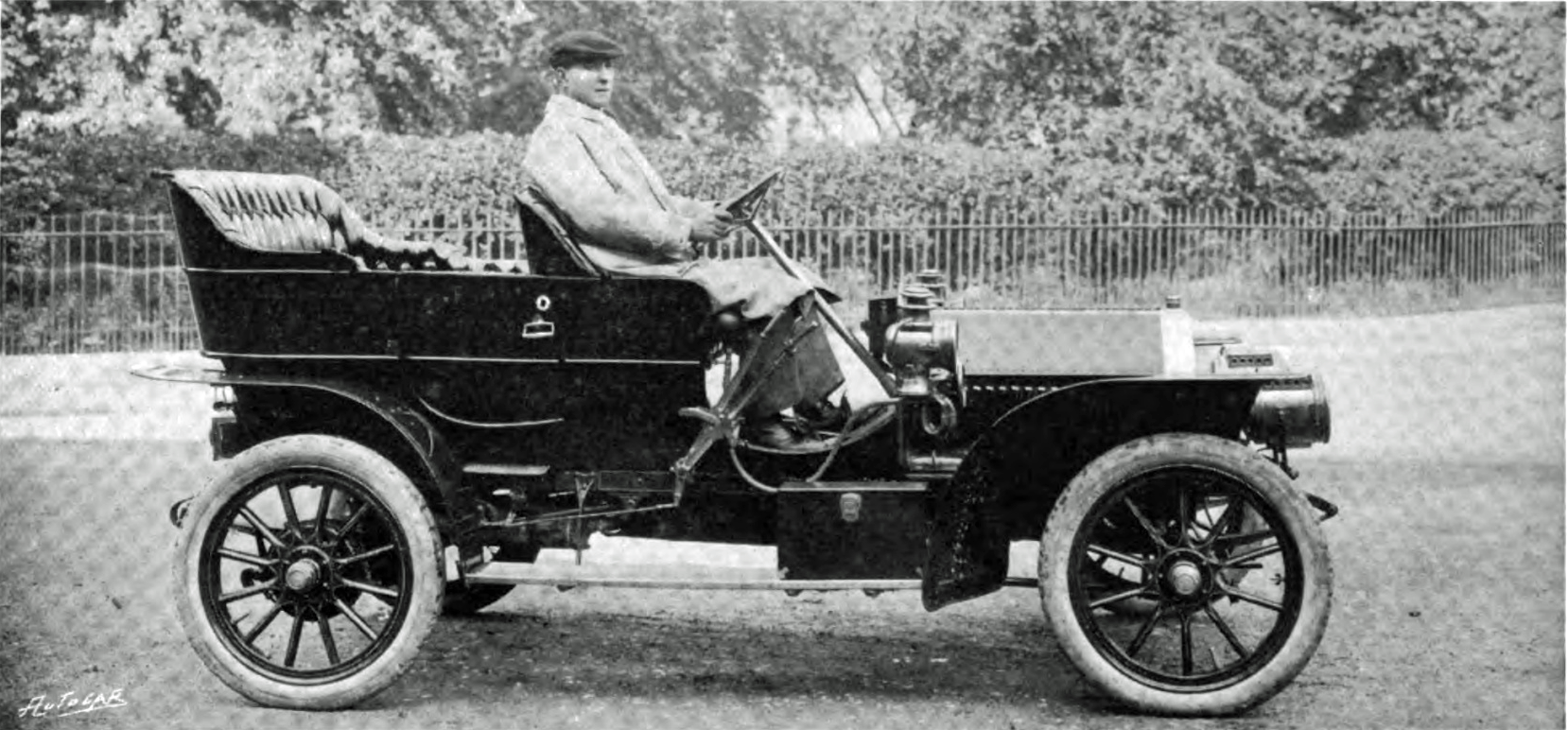 Cadillac Model G touring car